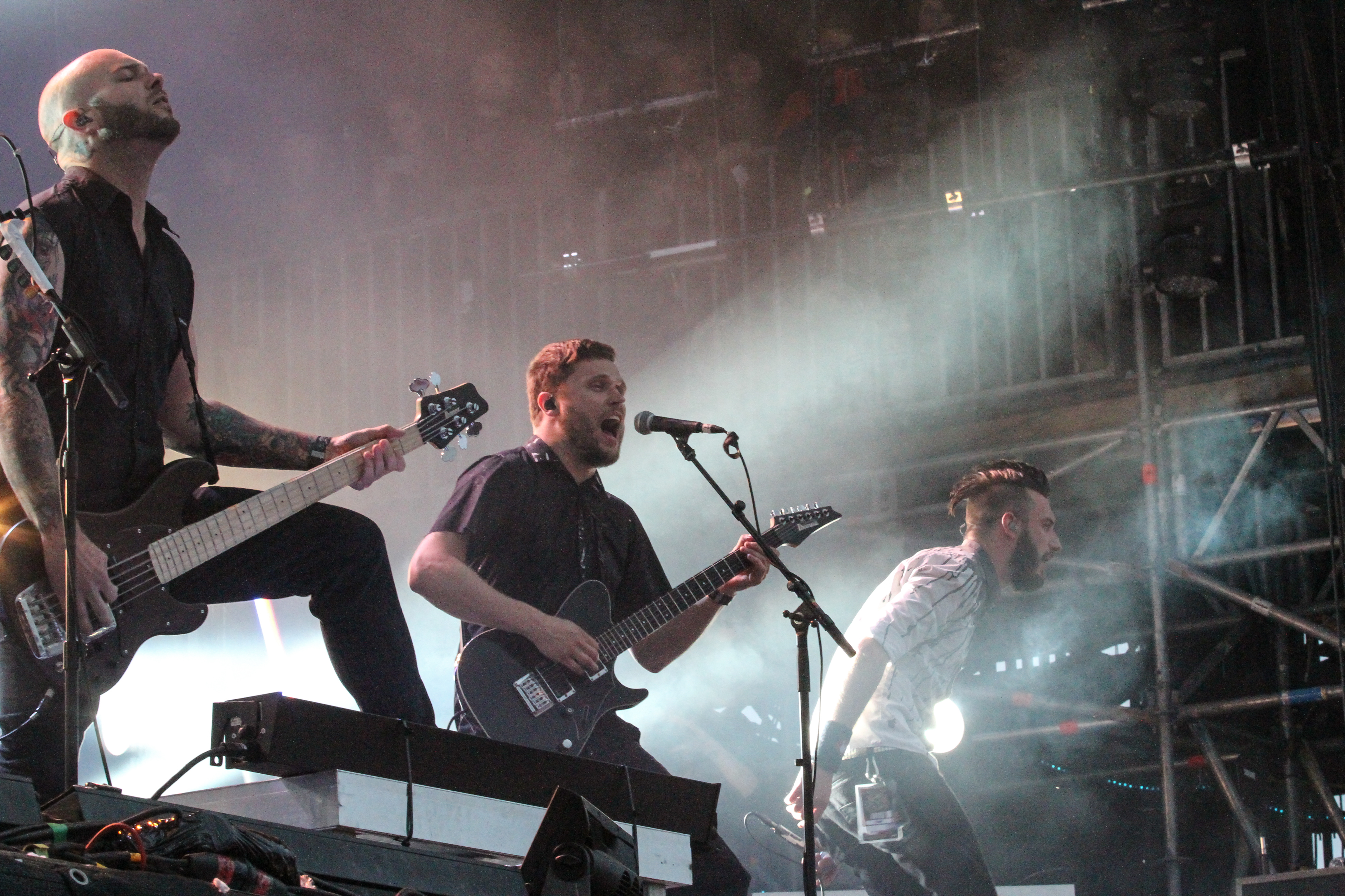 Festivalsommer This photo was created with the support of donations to Wikimedia Deutschland in the context of the CPB project "Festival Summer".